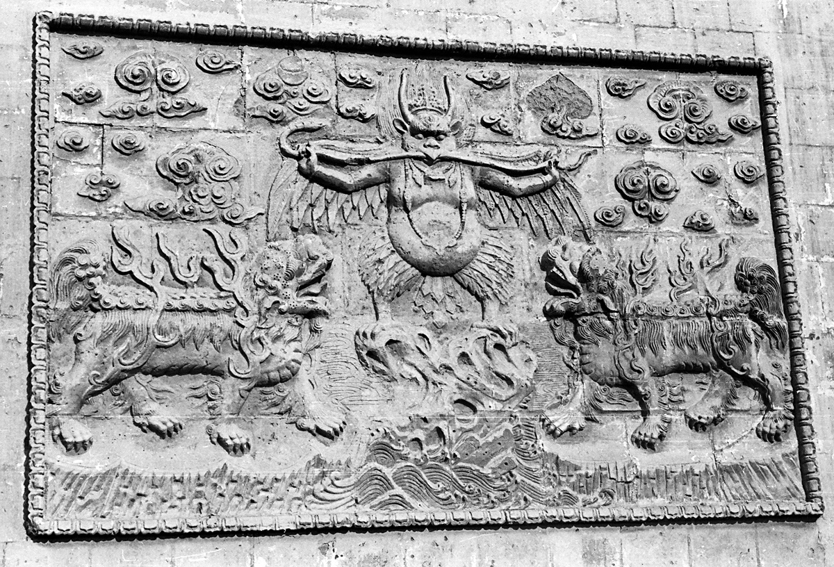 A part of the wall in front of the entrance at Choijin Lama Monastery (museum). Ulan Bator, Mongolia (1972)